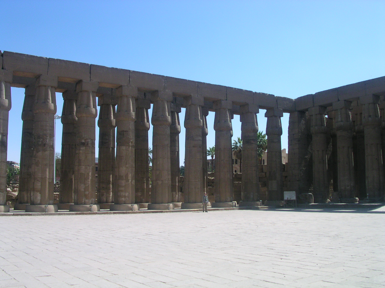 Luxor Temple, February 2007